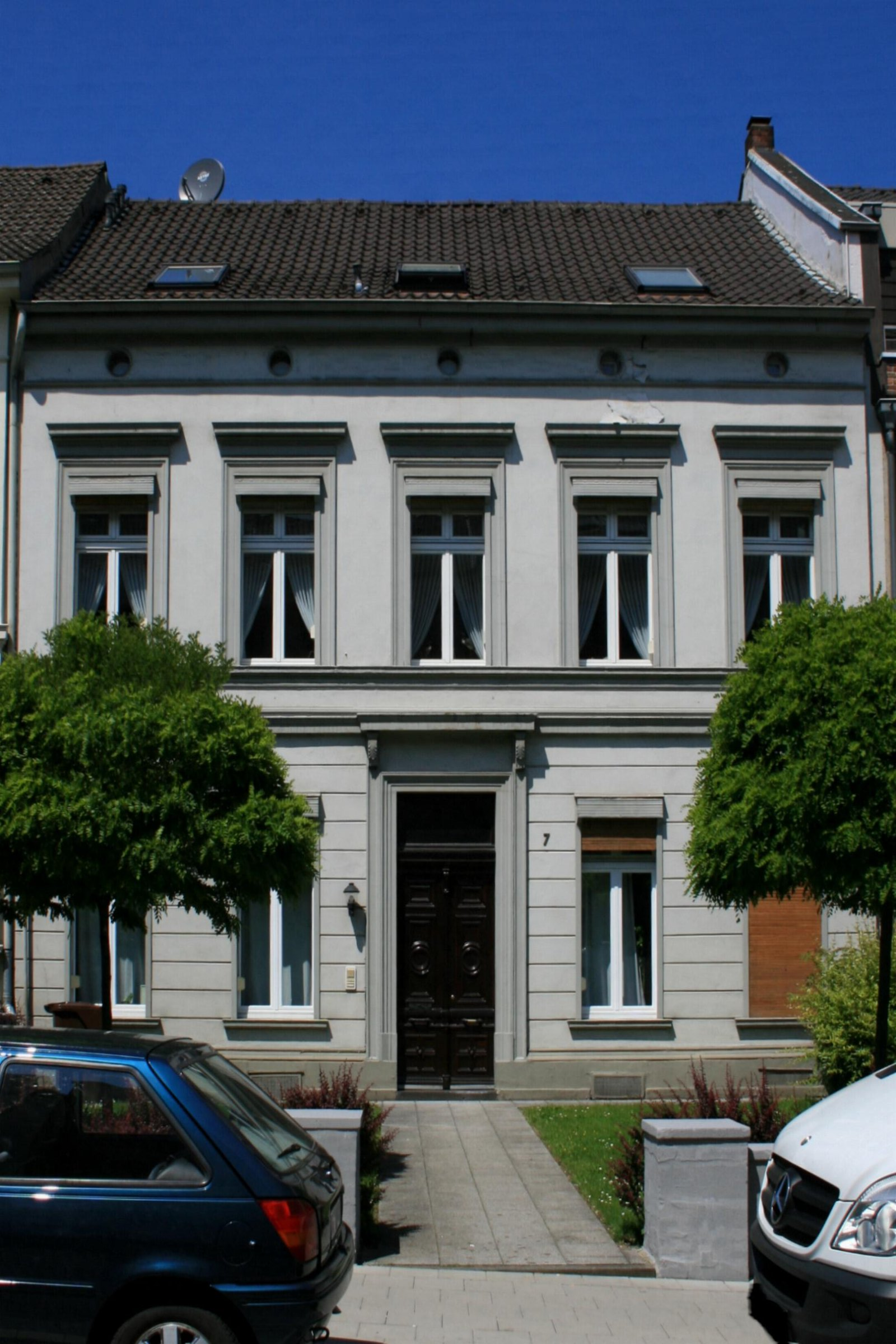 Cultural heritage monument No. R 026 in Mönchengladbach